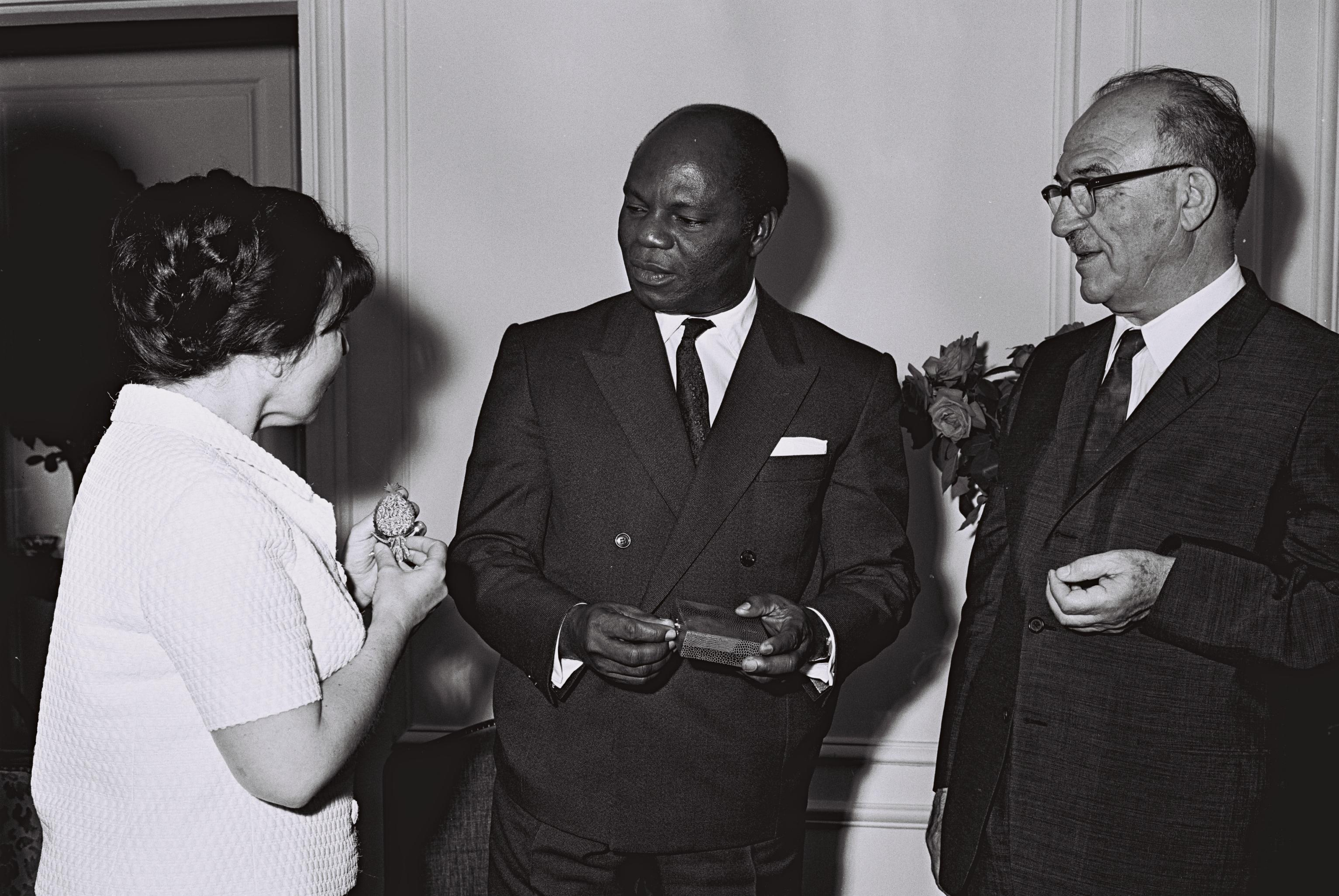 Meeting of Prime Minister of Israel Levi Eshkol and his wife Miriam Eshkol with the Prime Minister of Dahomey Justin Ahomadégbé-Tomêtin during their visit to Paris, July 3, '64.